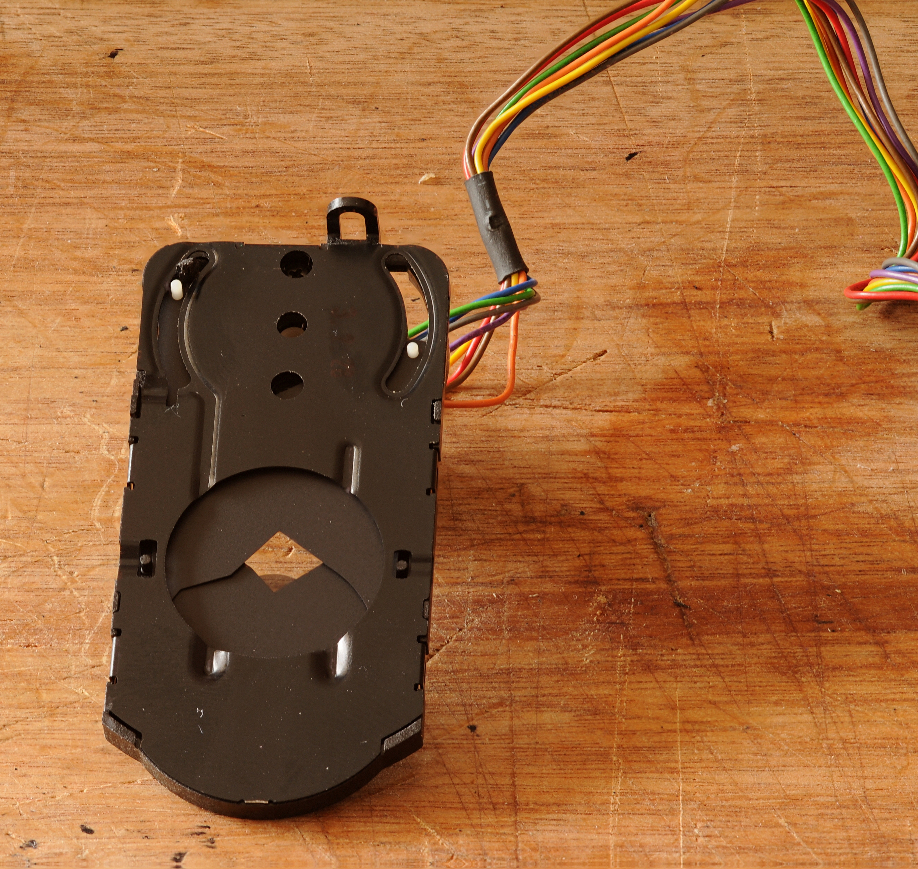 This photograph was taken with a Nikon D300 This image was created with CombineZM. Un diaphragme extrait d'une ancienne caméra vidéo (focus stacking).